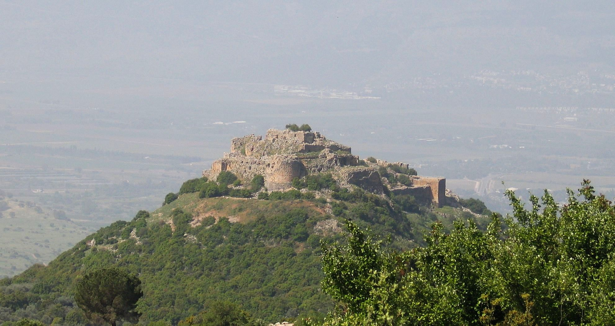 Nimrod fortress, from the east.